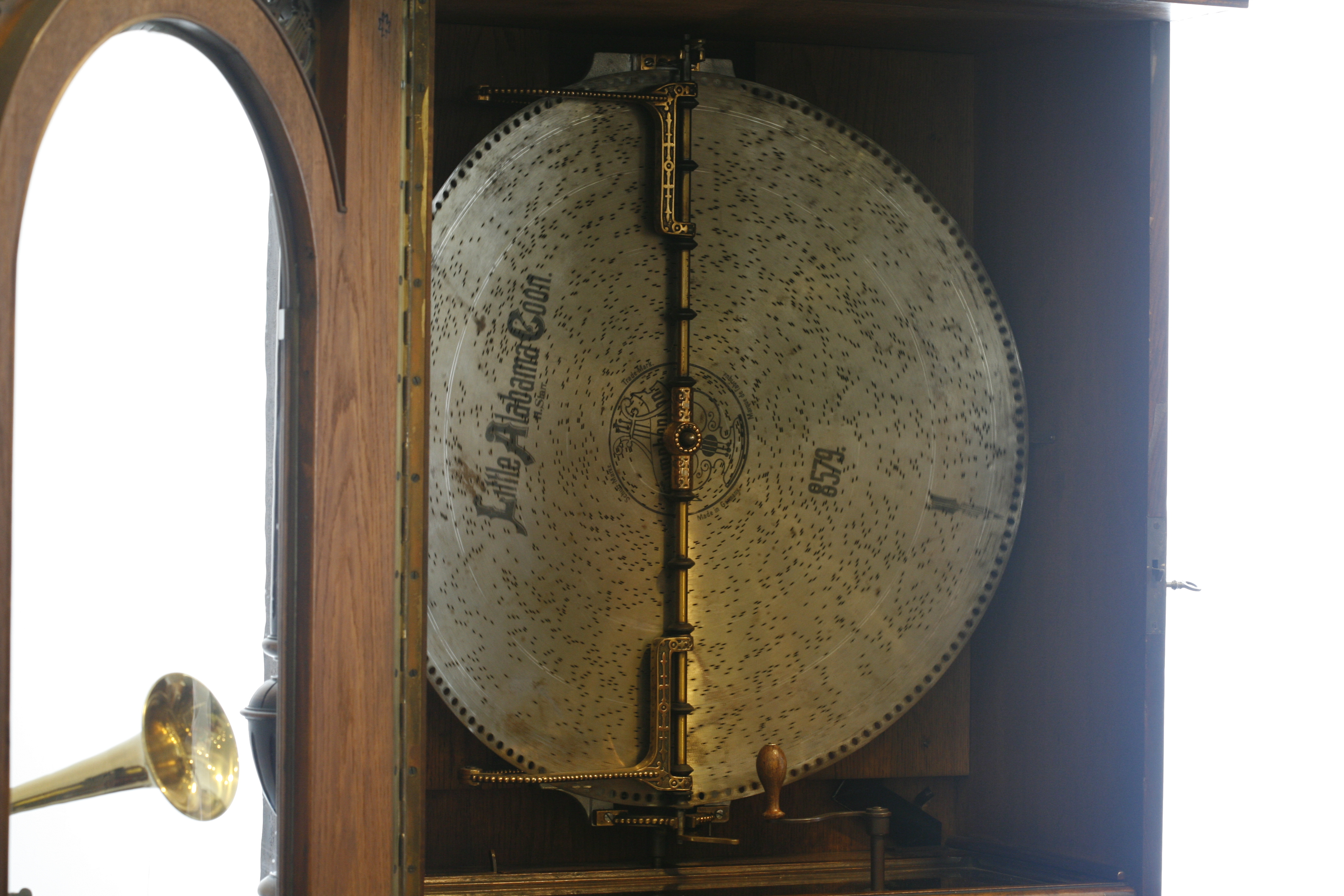 CIMA museum (Centre International de la Mécanique d'Art)